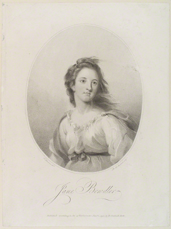 Portrait of Template:Jane Bowdler (1743–1784), English poet and essayist.